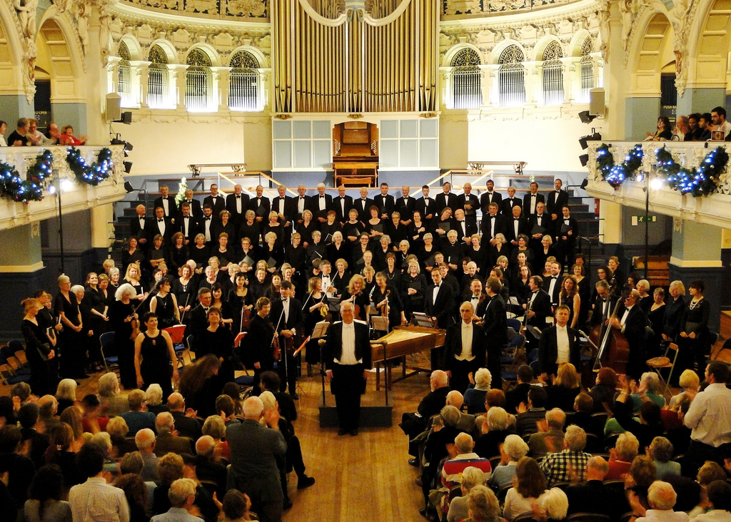 Oxford Harmonic Society in its 90th Anniversary concert: Handel's Messiah in Oxford Town Hall